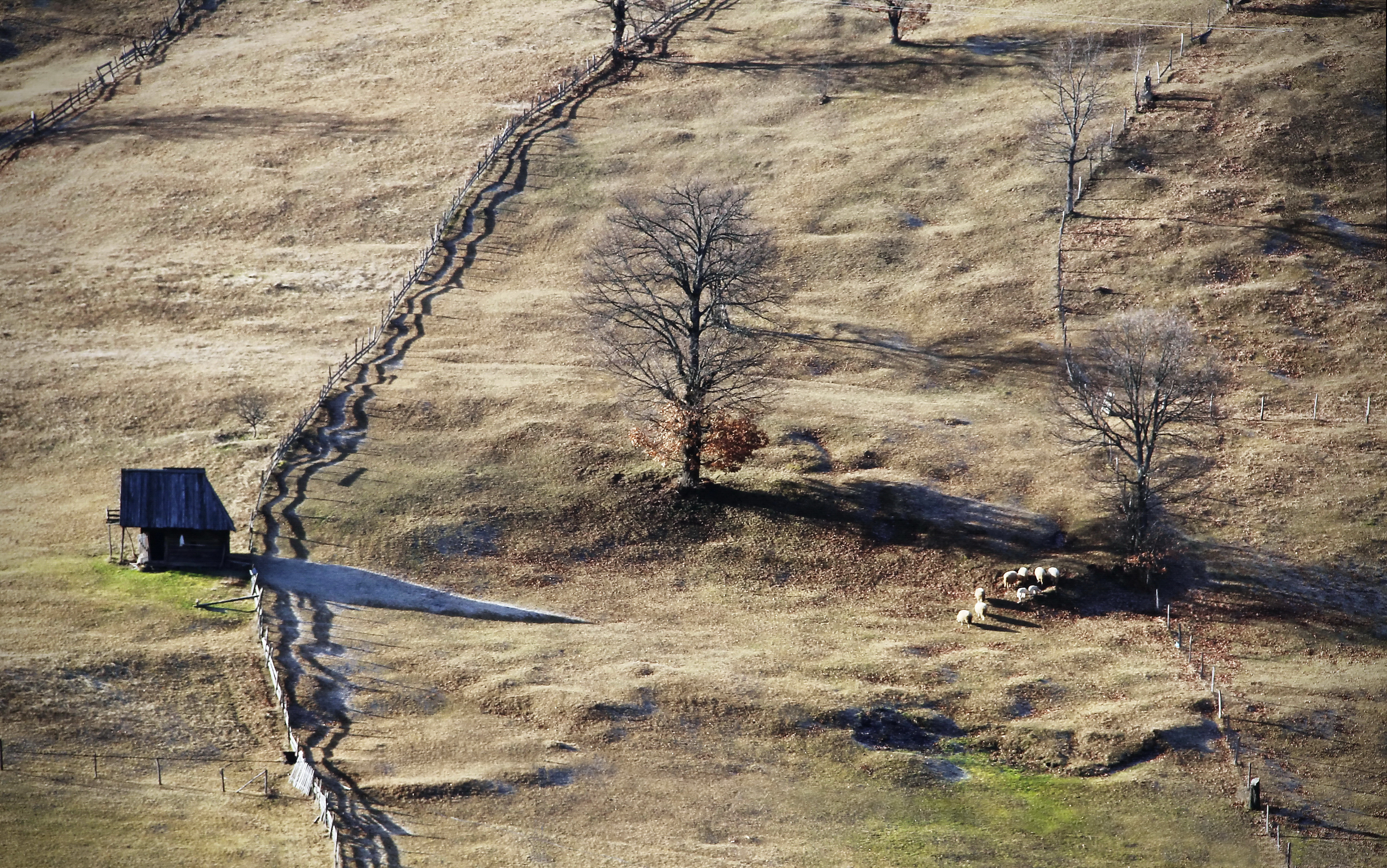 Zlatibor is a mountainous region situated in the western part of Serbia. Zlatibor is an important tourist area of Serbia, with resources for health tourism, skiing and hiking.